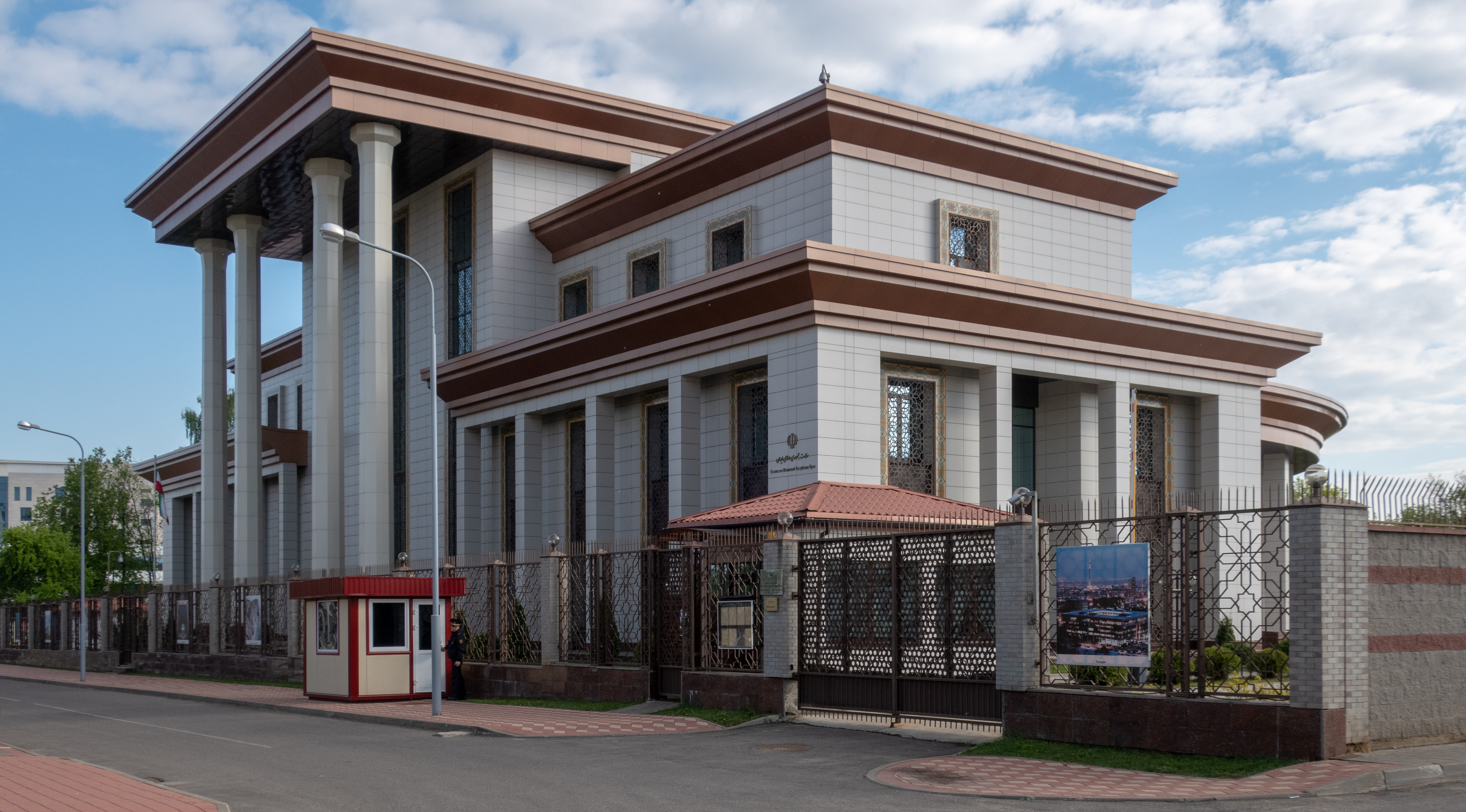 41a Staravilienski Trakt (Minsk, Belarus)